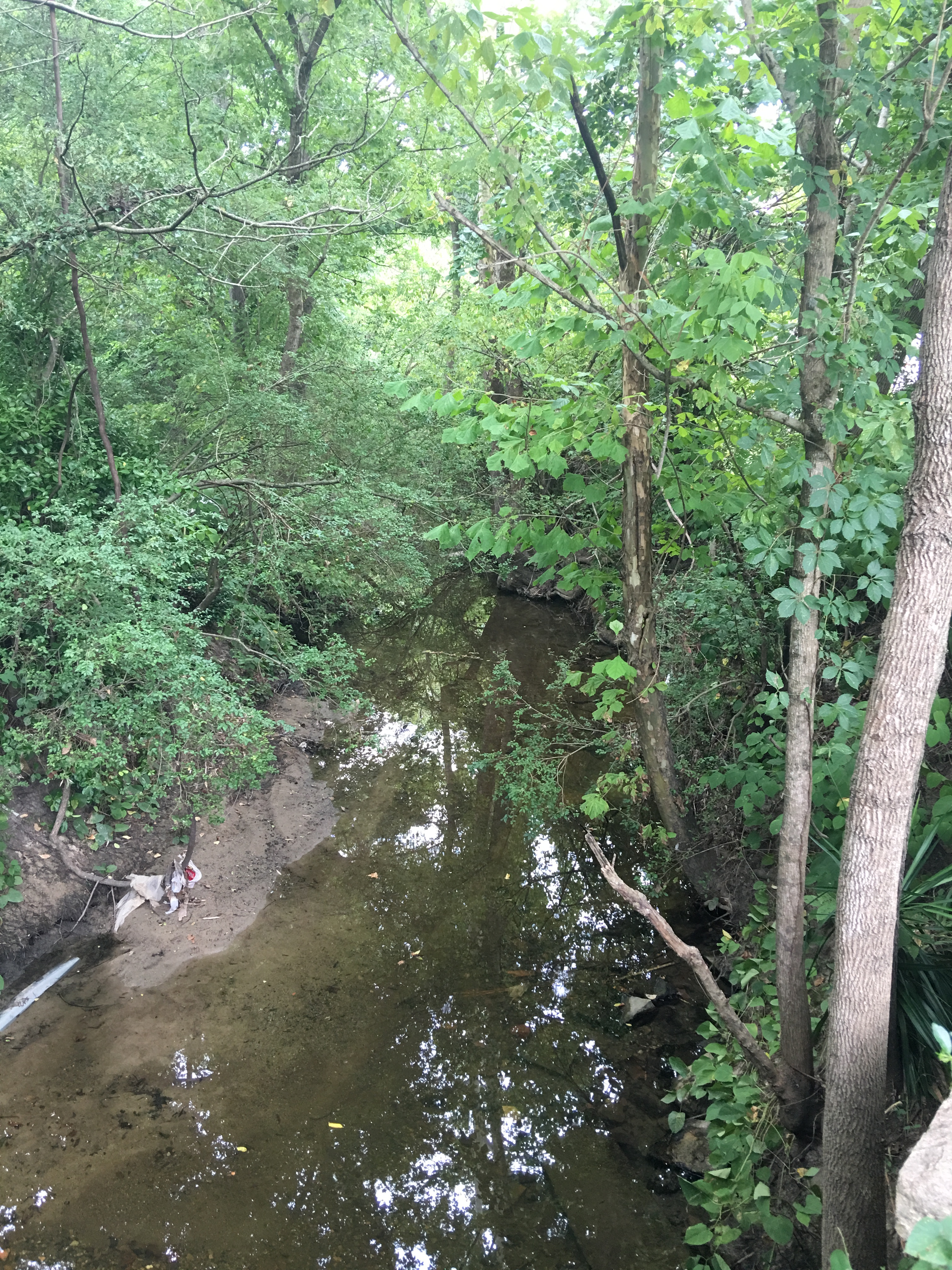 Dye Branch in Walltown, Durham, North Carolina. Dye Branch is a small creek that is part of South Ellerbe Creek, a tributary or the Neuse River.